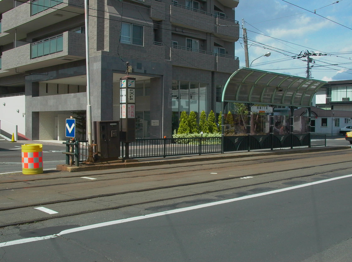 Nishisen Juichijo station, Sapporo, Hokkaido, Japan